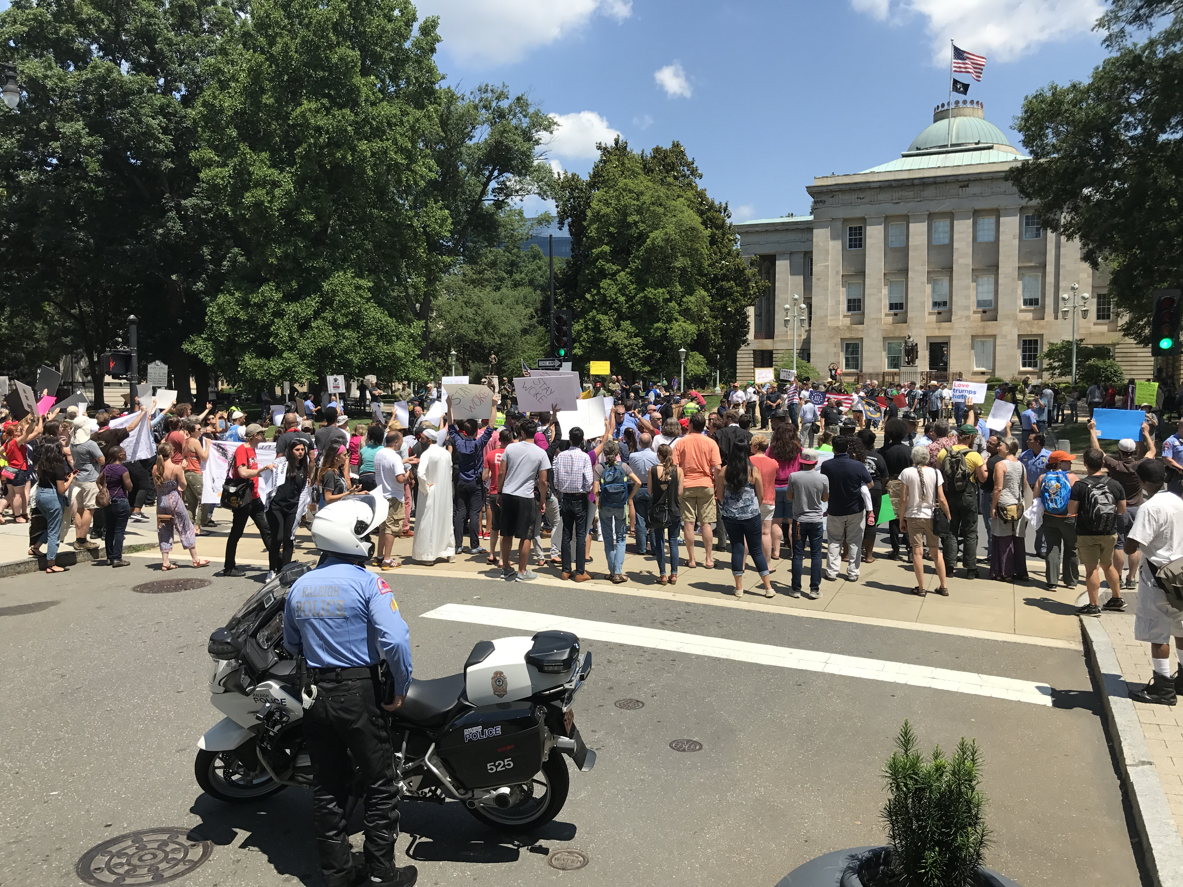 This was the "March Against Sharia" protest and counter-protest held in Raleigh on June 10, 2017.